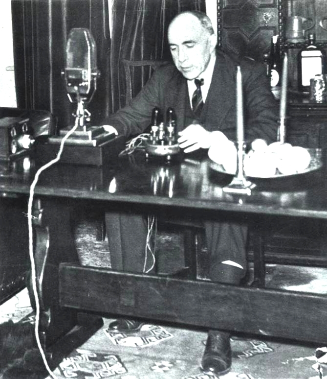 Harry Price carrying out a B.B.C. radio broadcast from a manor house in Meopham, Kent on March 10th, 1936. This was the first time that an investigation into a haunting had been broadcast 'live'.